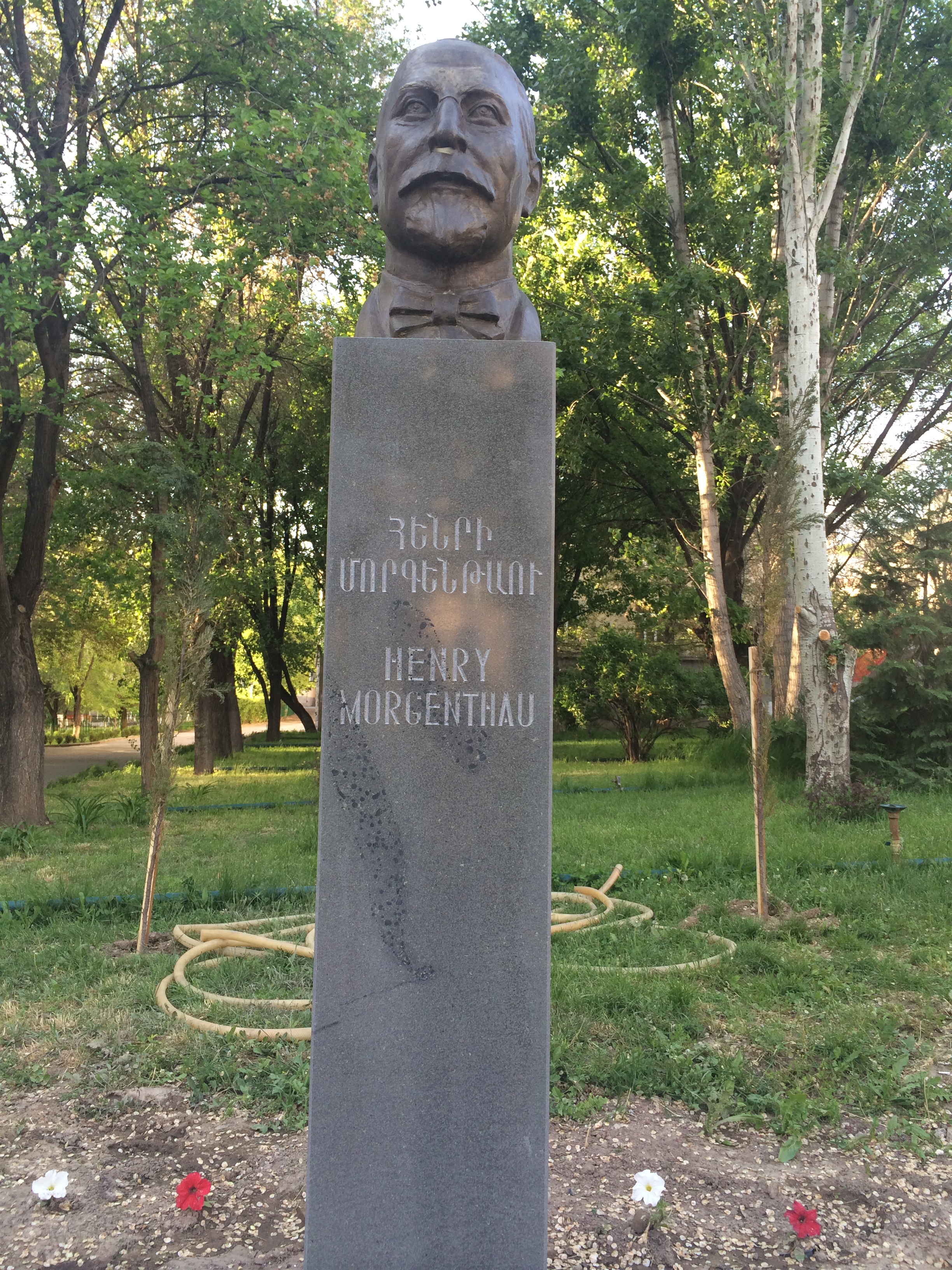 A bust of Henry Morgenthau in Alley Gratitude, Yerevan